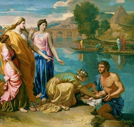 Baby Moses rescued from the Nile